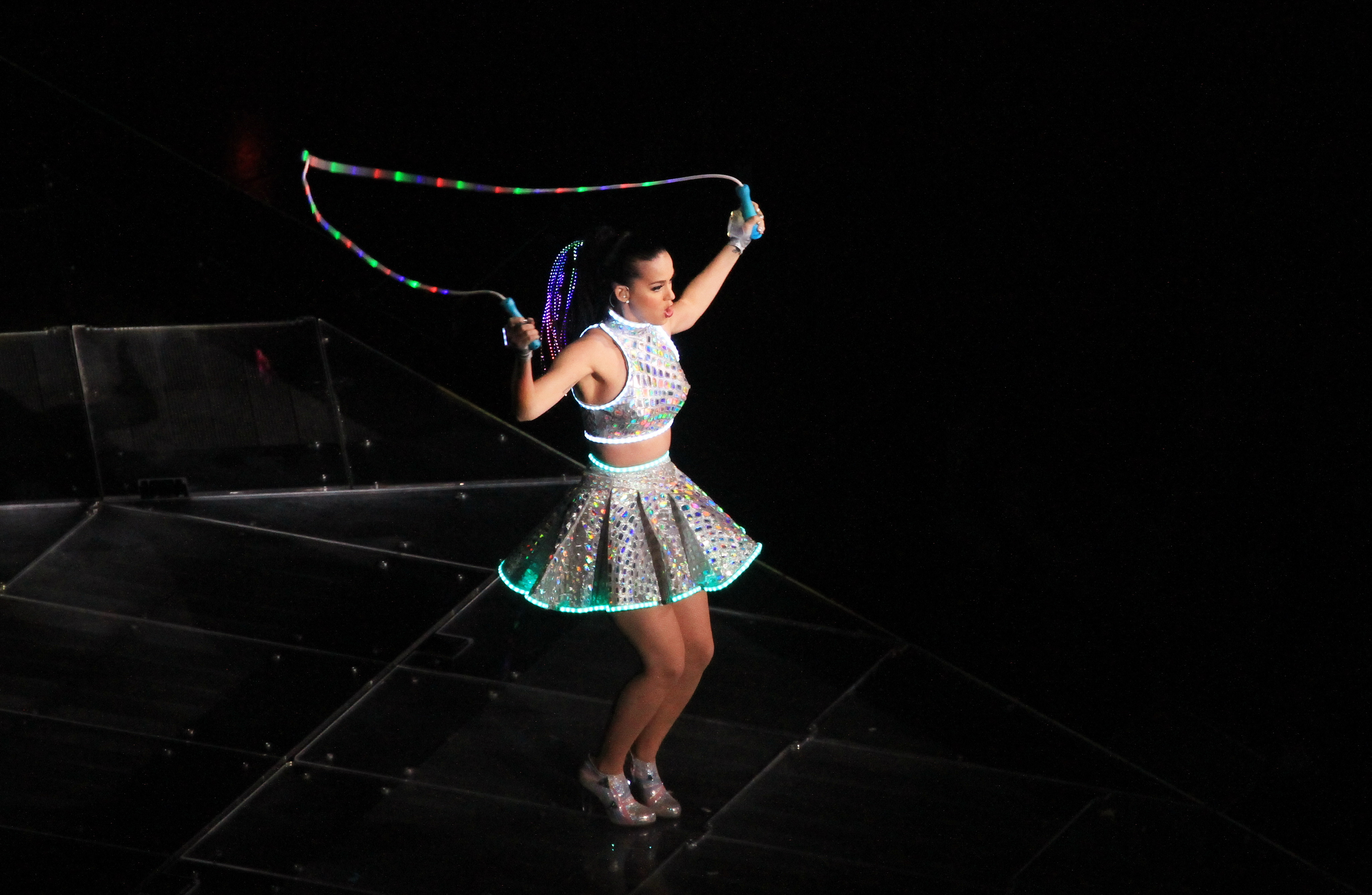 Katy Perry performing "Roar" at Prudential Center in Newark in July 12, 2014.